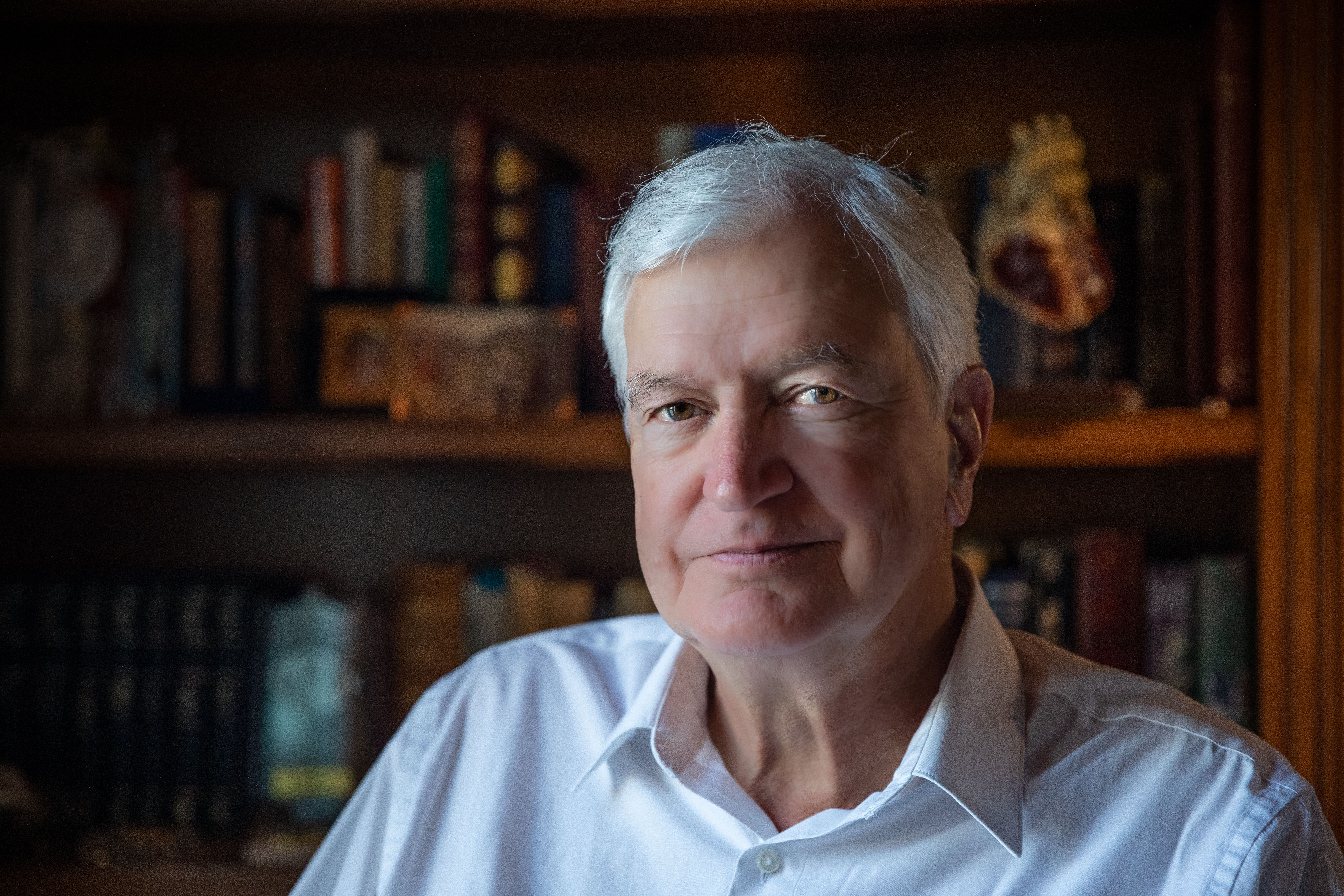 I took this photo myself on 27 July 2019 in his library